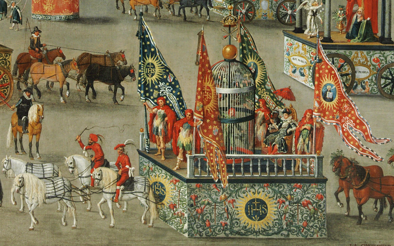 Jesuit schoolboy dressed up as king Psapho's parrot, saying "Isabella is Queen". Detail of the 5th painting in Alsloots Ommegang series.